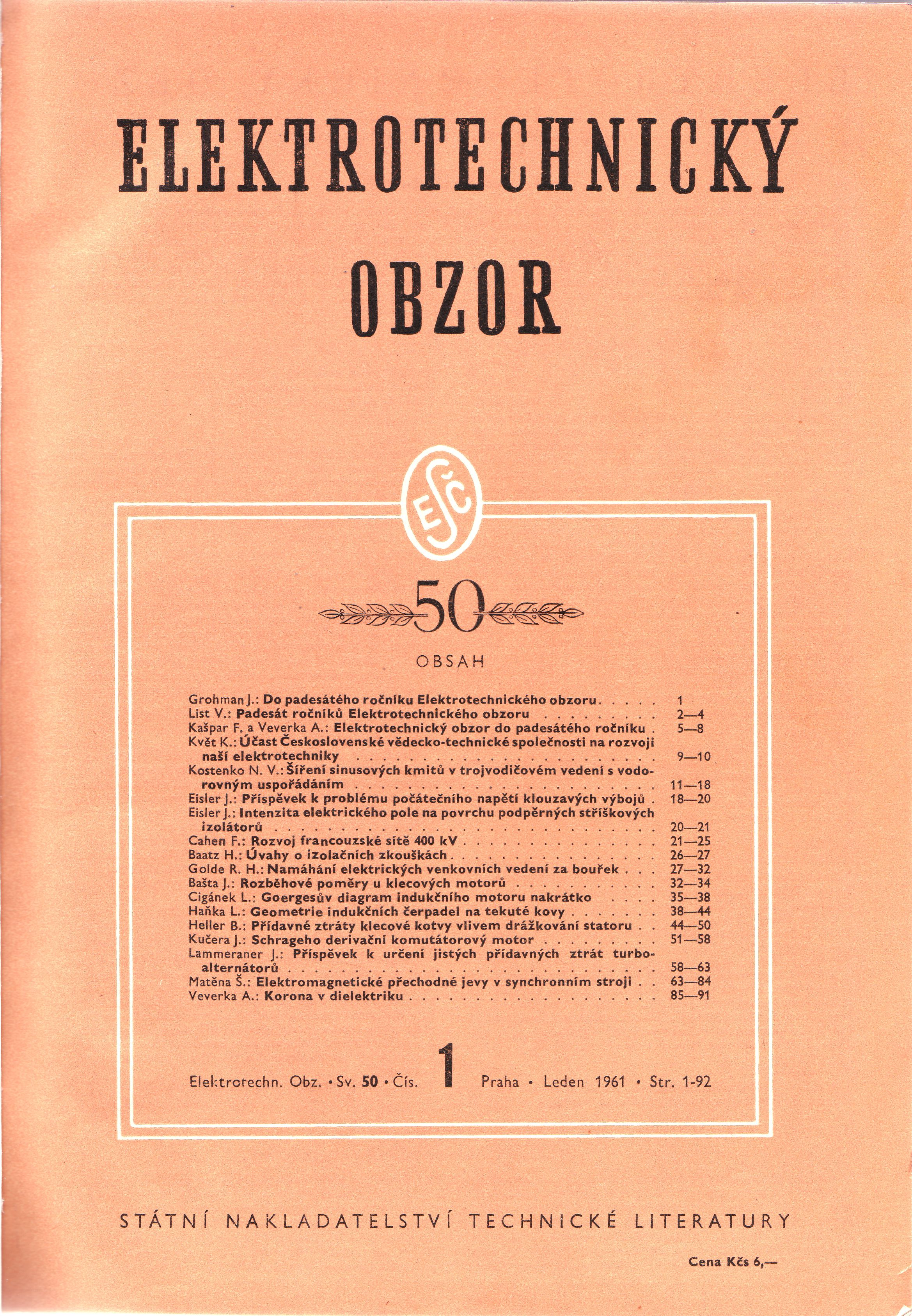 Cover of magazine Elektrotechnicky obzor